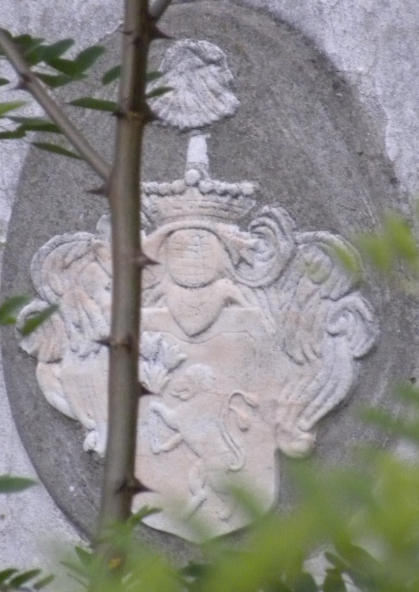 Coat of arms of Szilvay family. Melčice-Lieskové, Slovakia. Facade of the family tomb situated on the hill on the north of the village (touristpoint "Mauzóleum").